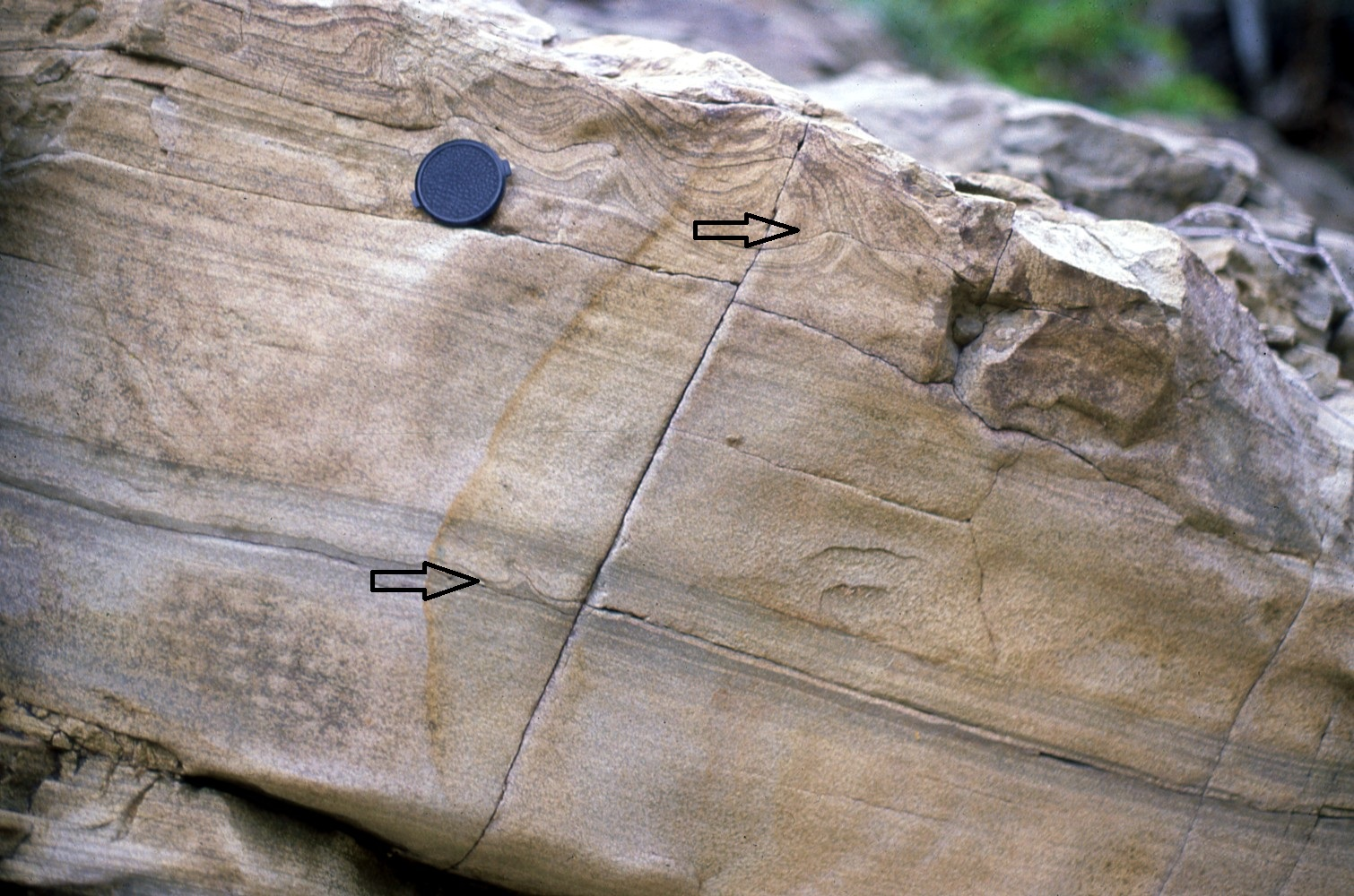 Cozy Dell Formation — Flame structures and convolute laminations in sandy turbidite. In the Topatopa Mountains, Ventura County, Southern California.